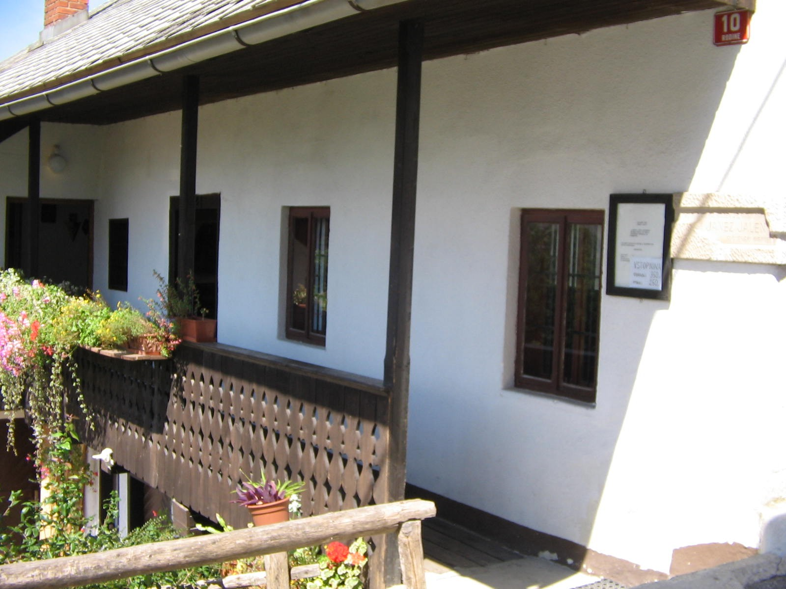 Entrance to the Janez Jalen's birth house, Rodine, Žirovnica municipality, Slovenia.